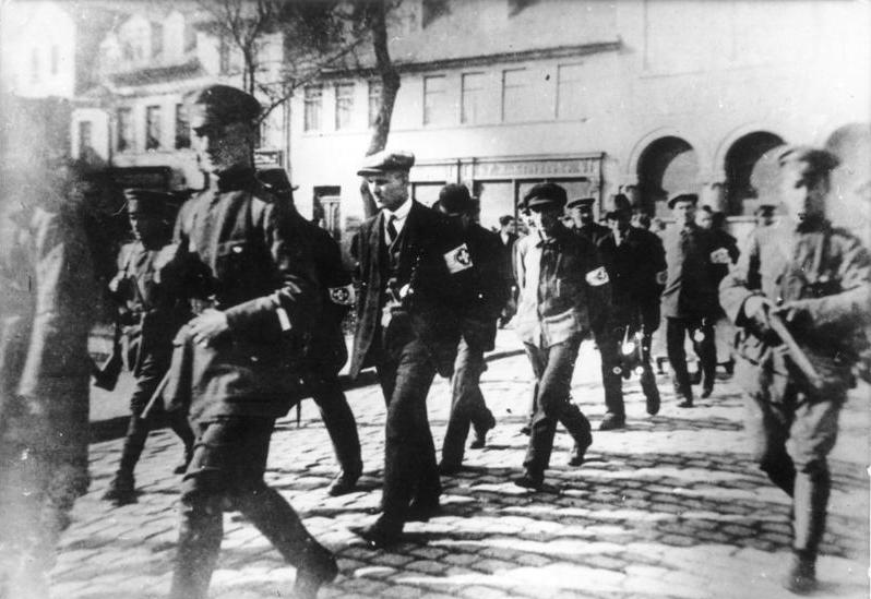 March Action in 1921 in the central German industrial area. On 19 March, on the orders of the Prussian Minister of the Interior Severing and the Oberpräsident of the Prov-Sachsen Hörsing the security police occupied the workplaces and factories in the area Halle. On 21 March began a general strike was launched in the Mansfeld area. After 22 March, provoked by the police, armed fighting developed. The security police managed to liquidate the last armed workers' sections on the 3 April. Many workers were murdered and thousands imprisoned. Revolutionary workers were arrested by the police in Eisleben.